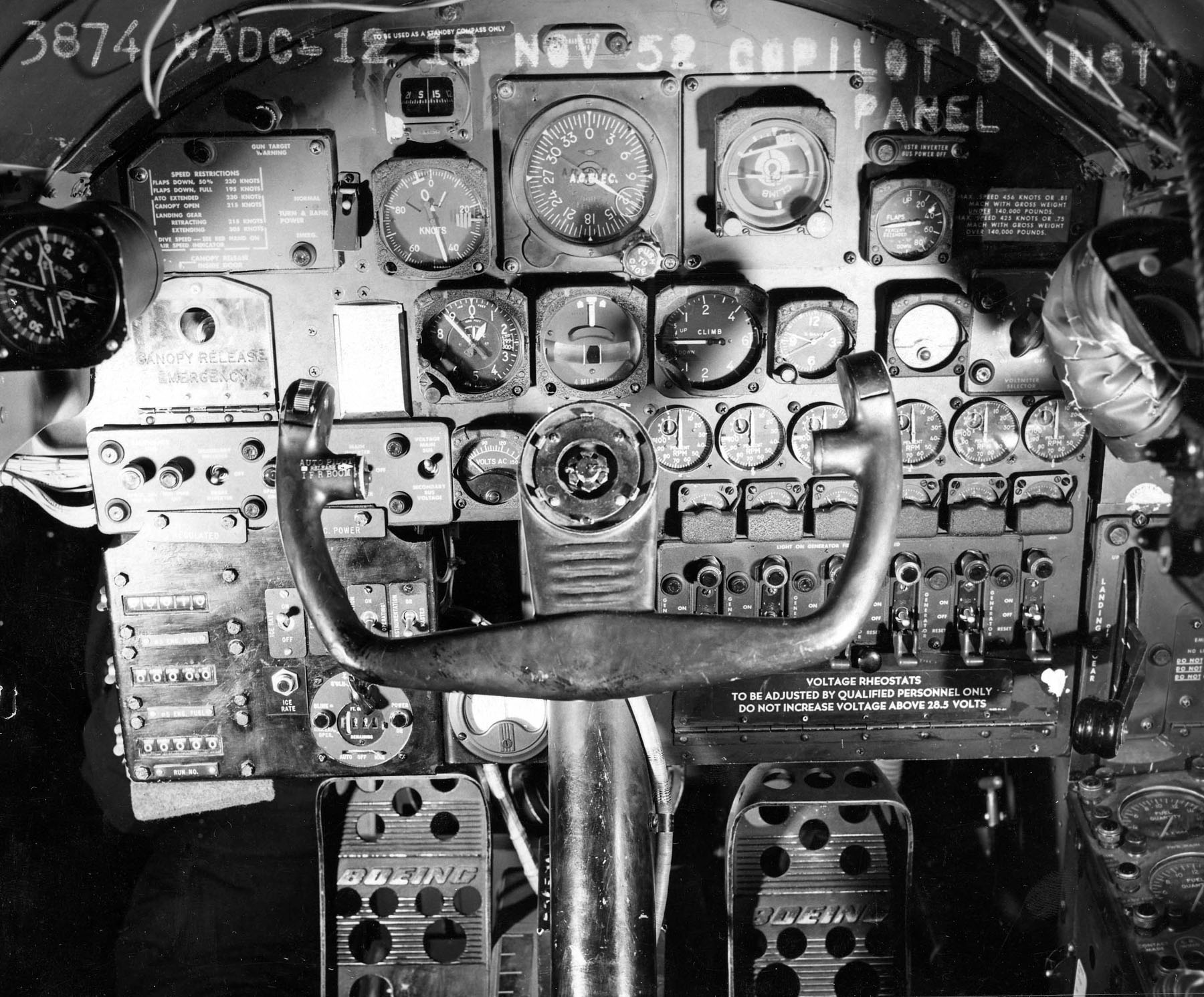 Boeing B-47B copilots instrument panel from the Wright Air Development Center on Nov. 18, 1952